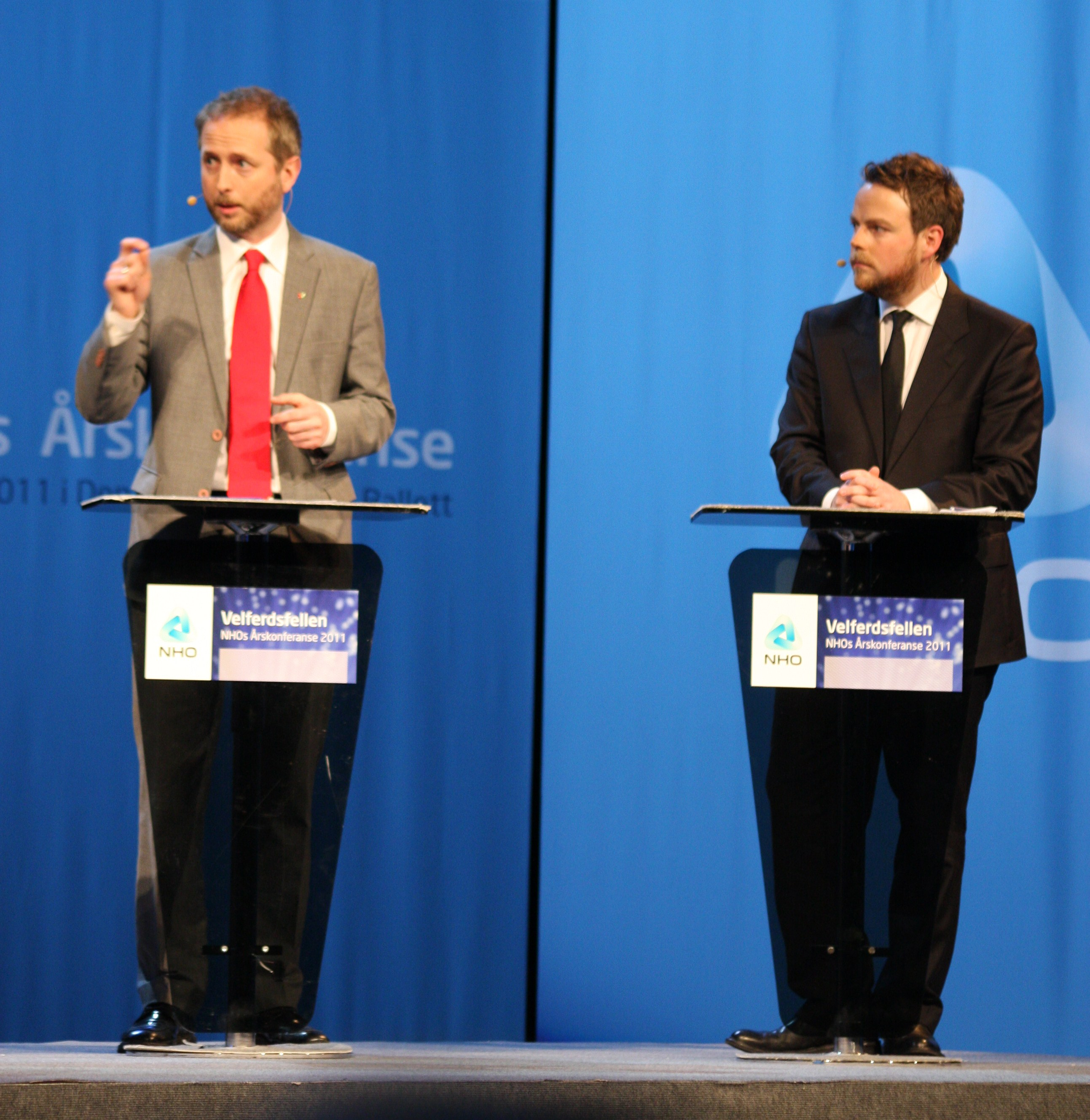 Members of Parliament, Bård Vegar Solhjell (SV) and Torbjørn Røe Isaksen (H), discussing welfare and taxation at NHO Årskonferanse 2011.